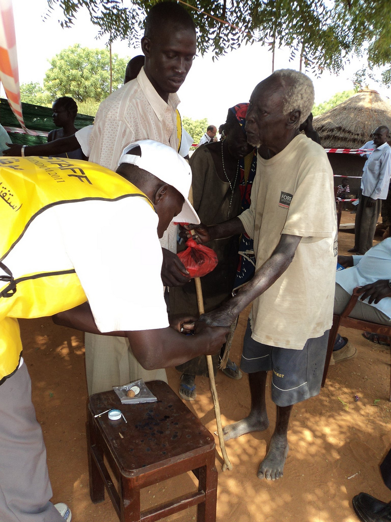 A referendum poll worker assists an elderly blind voter in Juba January 10, dipping his finger in ink to indicate he has voted. USAID provided support for training of poll workers, including assistance for disabled voters. Angela Stephens/USAID